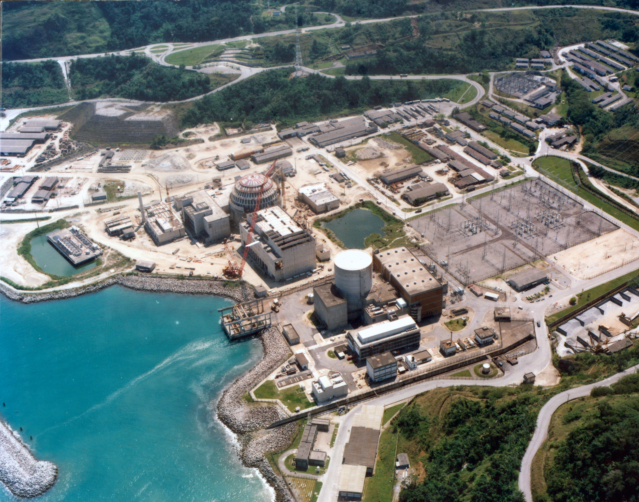 Angra nuclear power plant under construction. (Angra, Brazil) Photo Credit: FURNAS Centrais Electricas